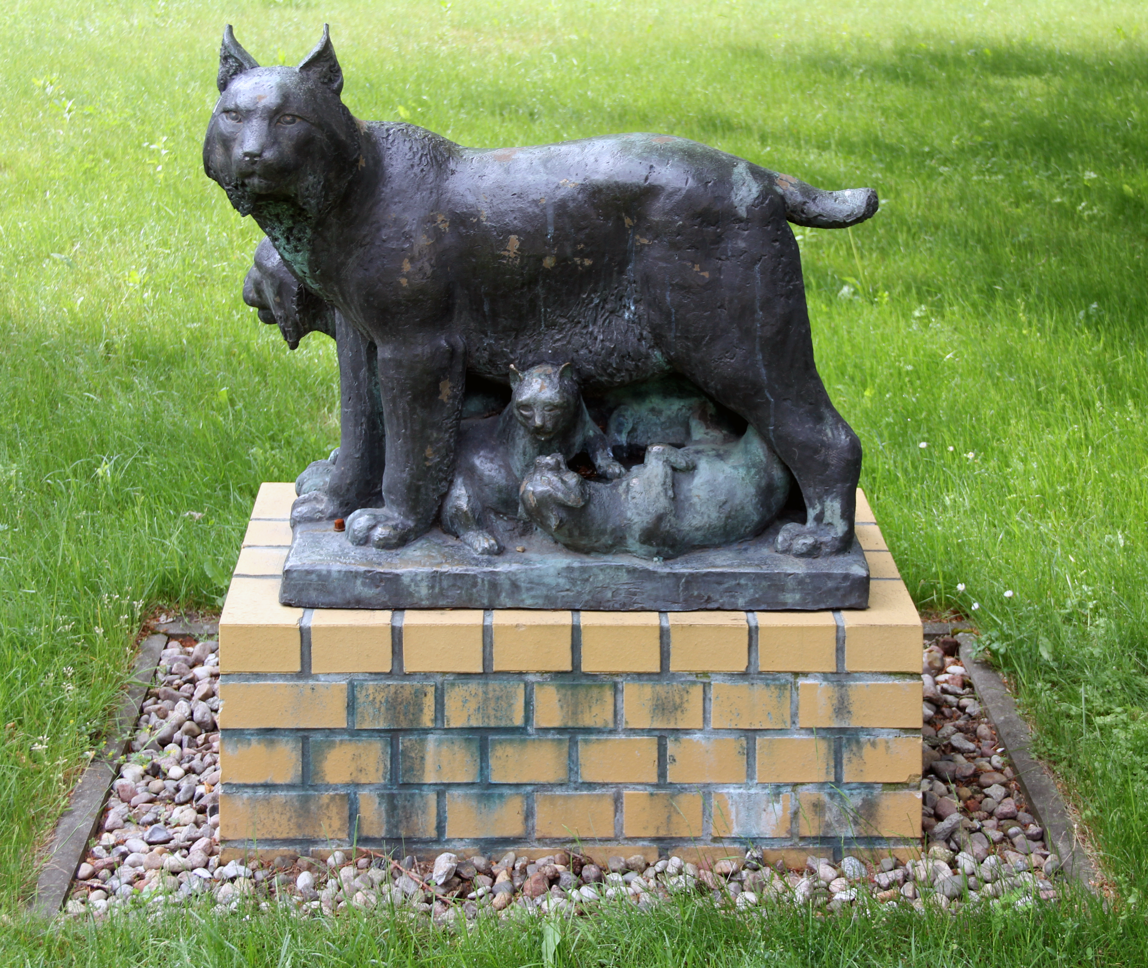 Sculpture, "Luchsfamilie" by Lothar Rechtacek, 1978, Römerweg 39, Berlin-Karlshorst, Germany